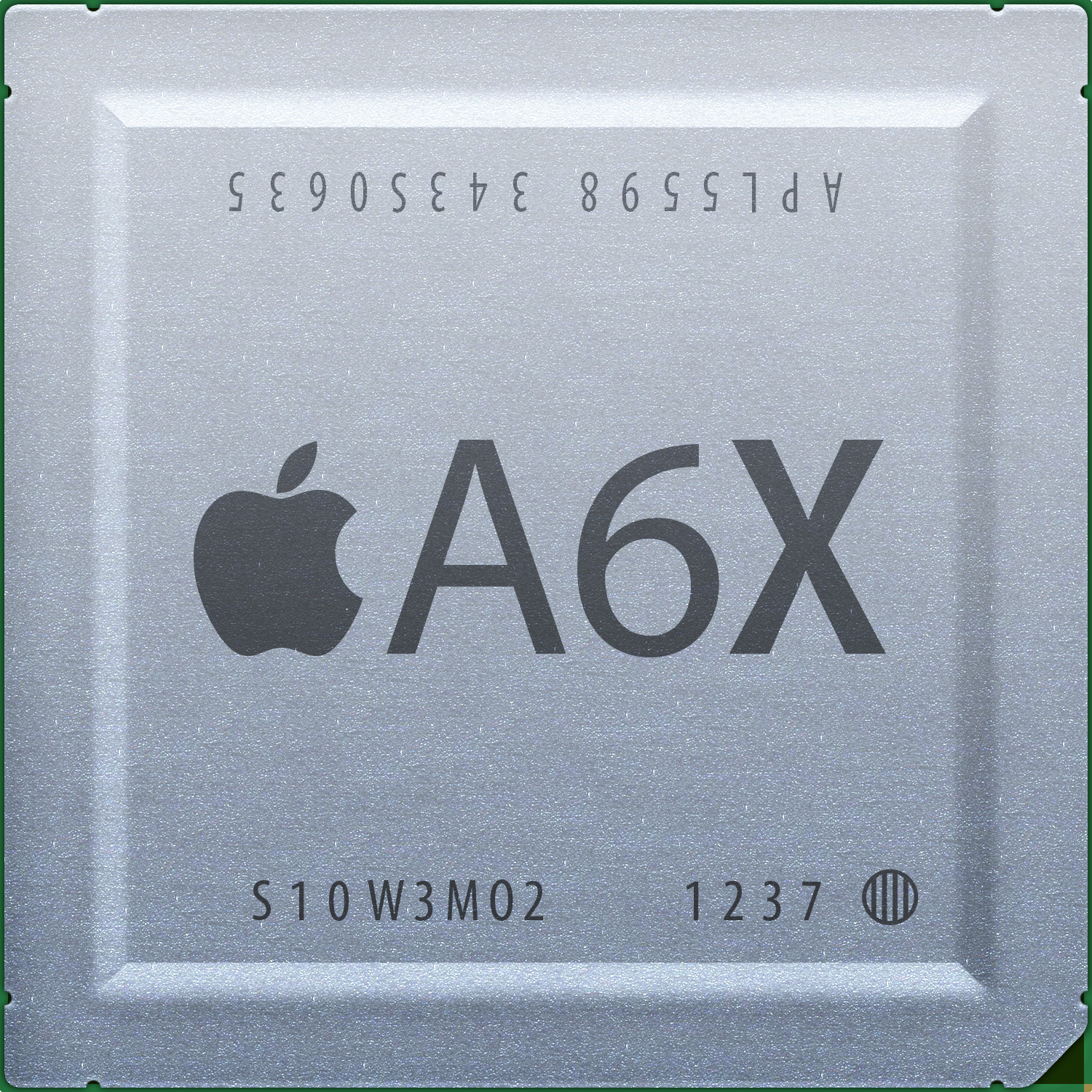 Apple A6X processor. Enhanced from